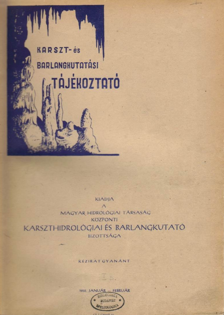 Karszt- és Barlangkutatási Tájékoztató 1956 january-february frontpage